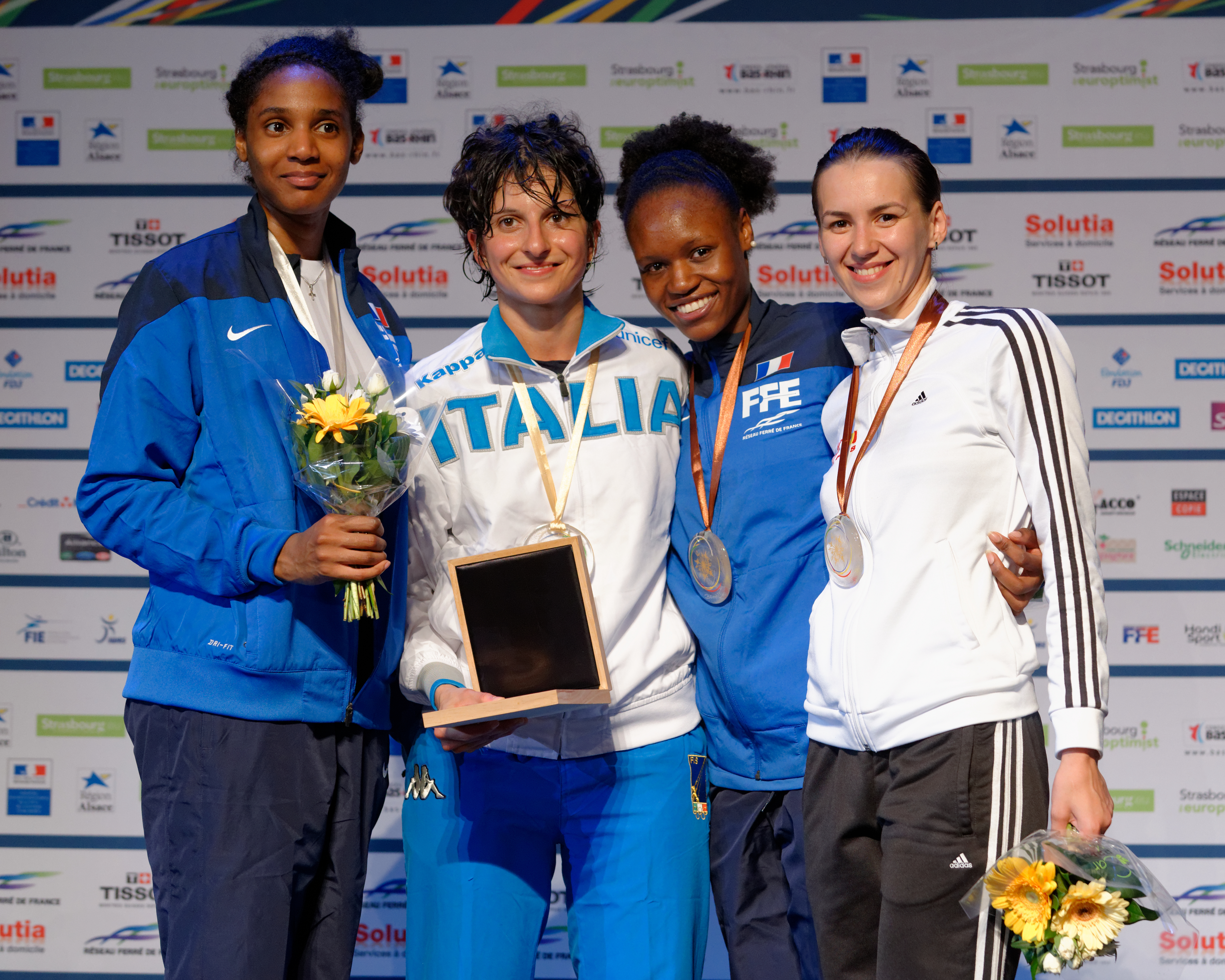 From left to right, France's Marie-Florence Candassamy, Italy's Bianca Del Carretto, France's Joséphine Jacques-André-Coquin, and Romania's Simona Gherman stand on the podium for women's épée in the European Fencing Championships at Rhénus Sport in Strasbourg on 8 June 2014.